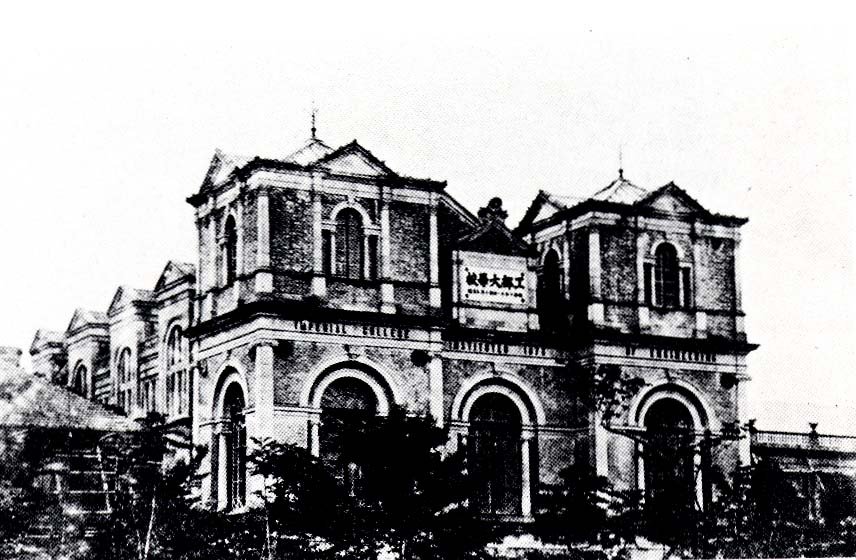 Imperial College of Engineering